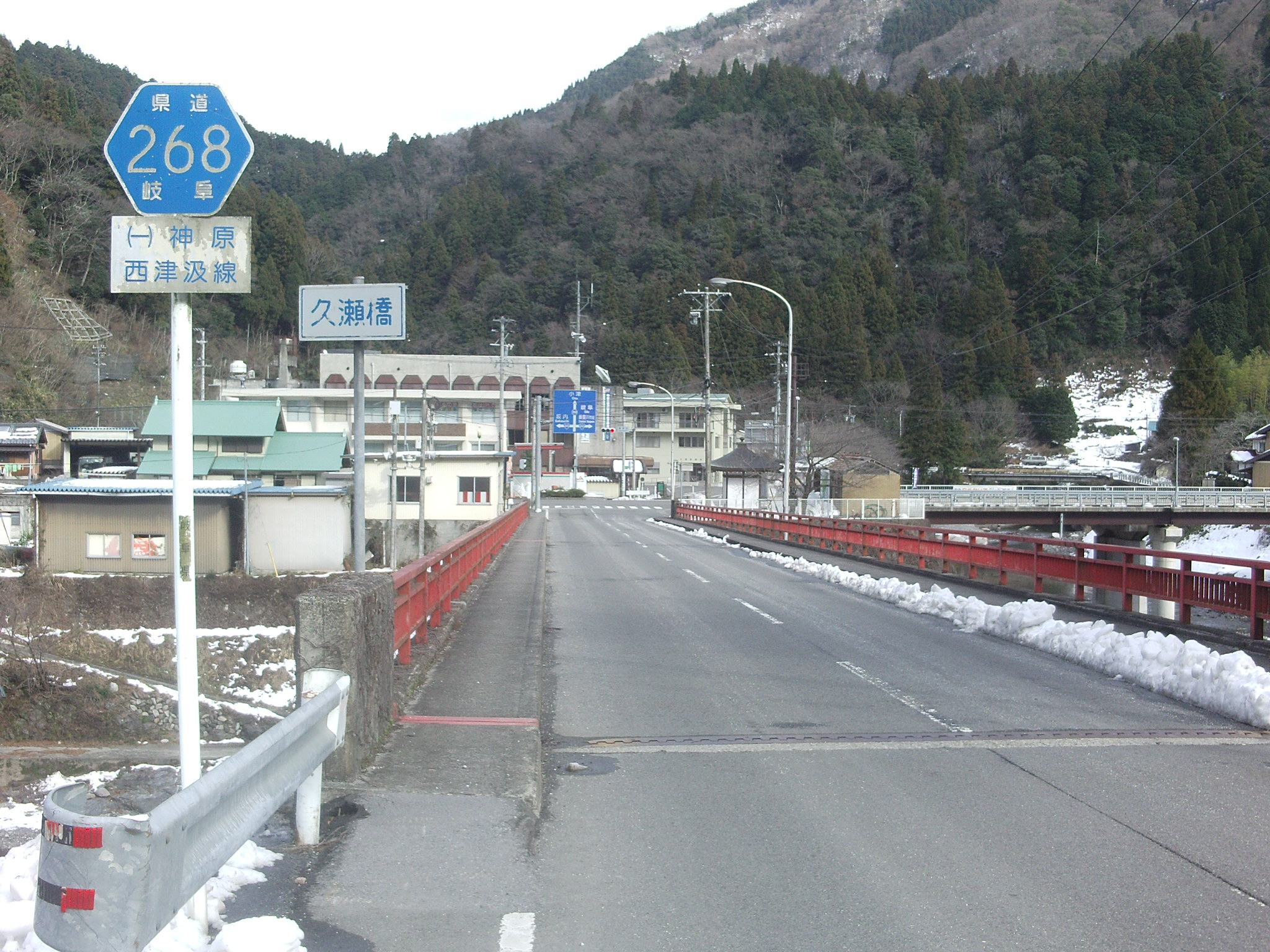 Gifu prefectural road No. 268in Nishitsukumi, Ibigawa town, Ibi-gun, Gifu.